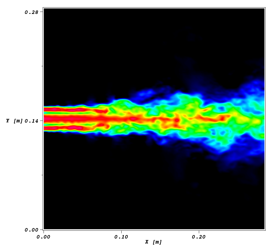 Large eddy simulation of a turbulent velocity field. Image details: Image is taken from a simulation of a multiphase jet laden with inert glass beads Domain has units of meters Velocity has units of meters per second Simulation details Simulation was run using Arches finite-volume large eddy simulation code Simulation was run on Updraft computing cluster at the University of Utah See Dissertation of S. Budilarto for details on the physical setup Visualization details: Plot was created using VisIt visualization software